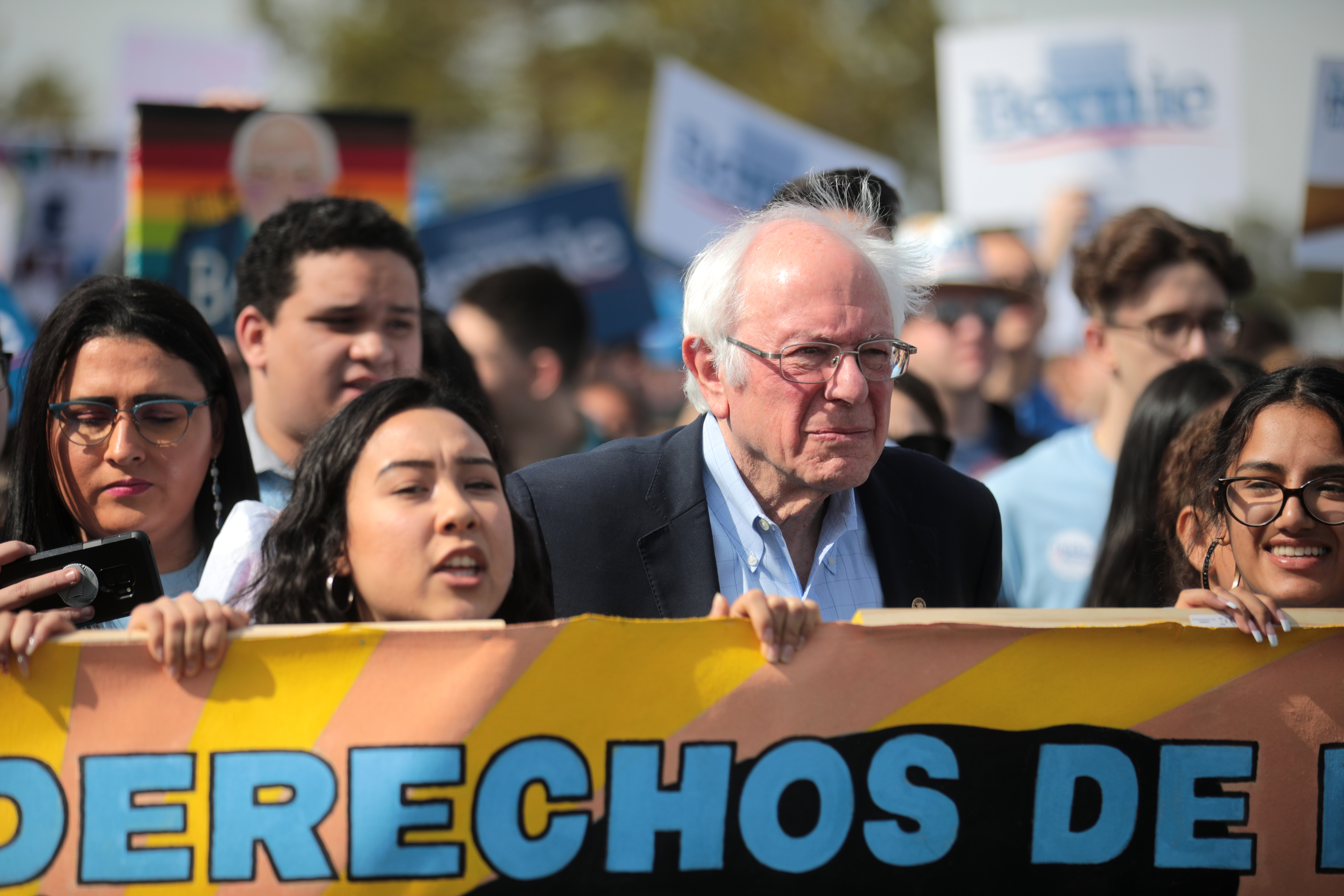 U.S. Senator Bernie Sanders speaking with supporters at a march to the polls following a campaign rally at Desert Pines High School in Las Vegas, Nevada.